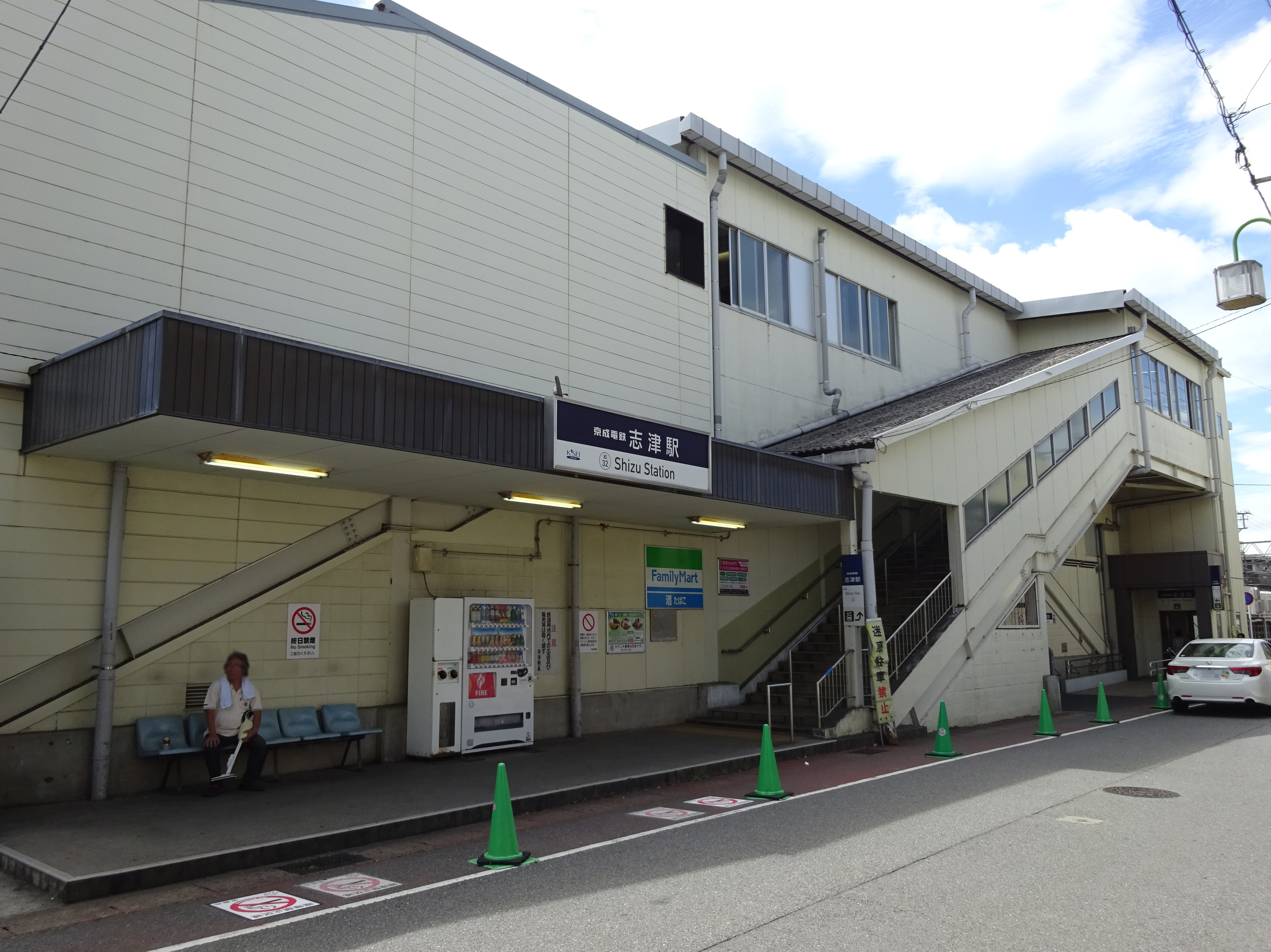 North entrance of Shizu Station